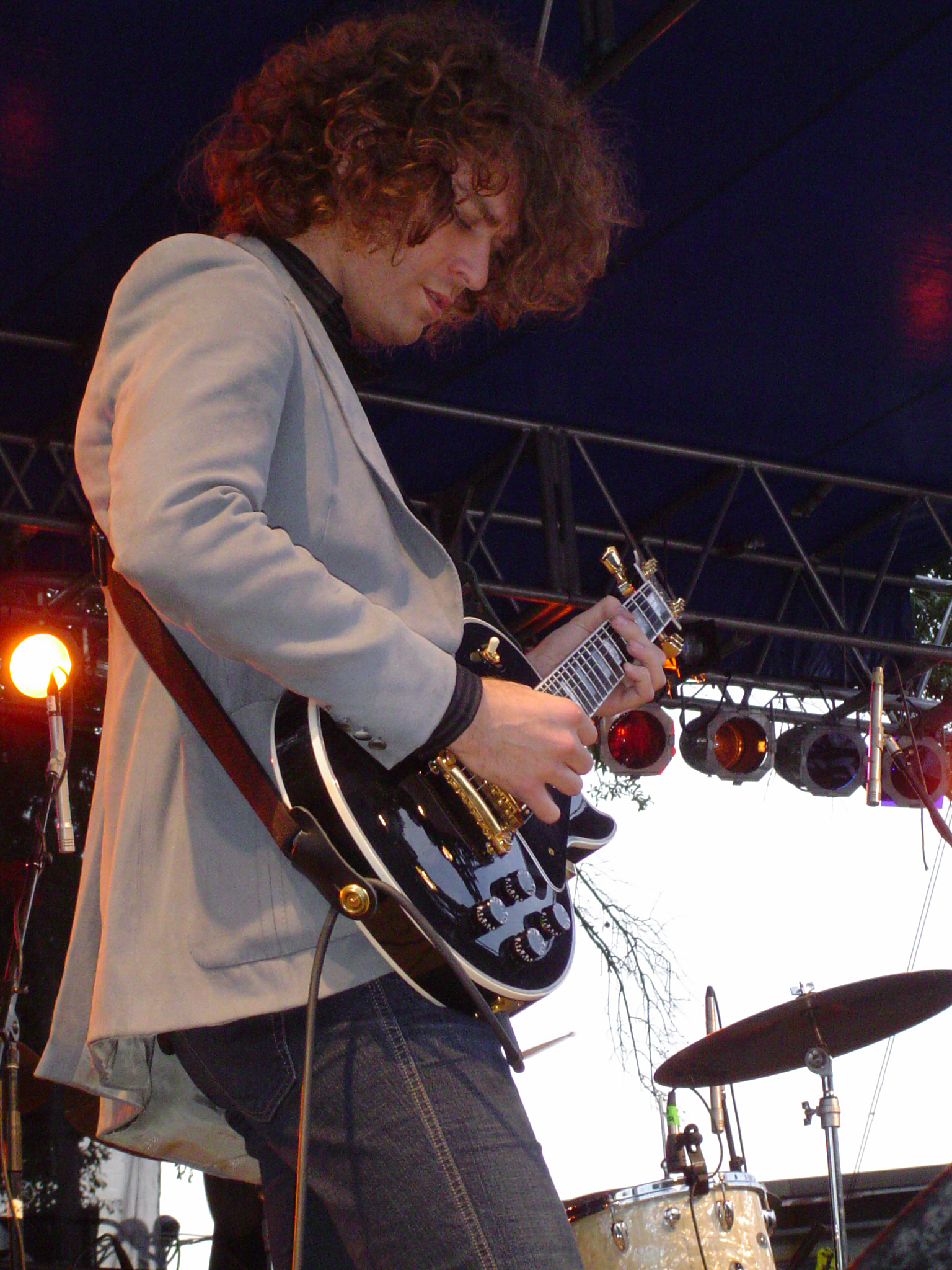 Dave Keuning, guitarist for The Killers at Upstart Fest in Atlanta, Georgia on September 12, 2004. Photo taken by Hillary Lipko, released under CC Attribution 2.5.